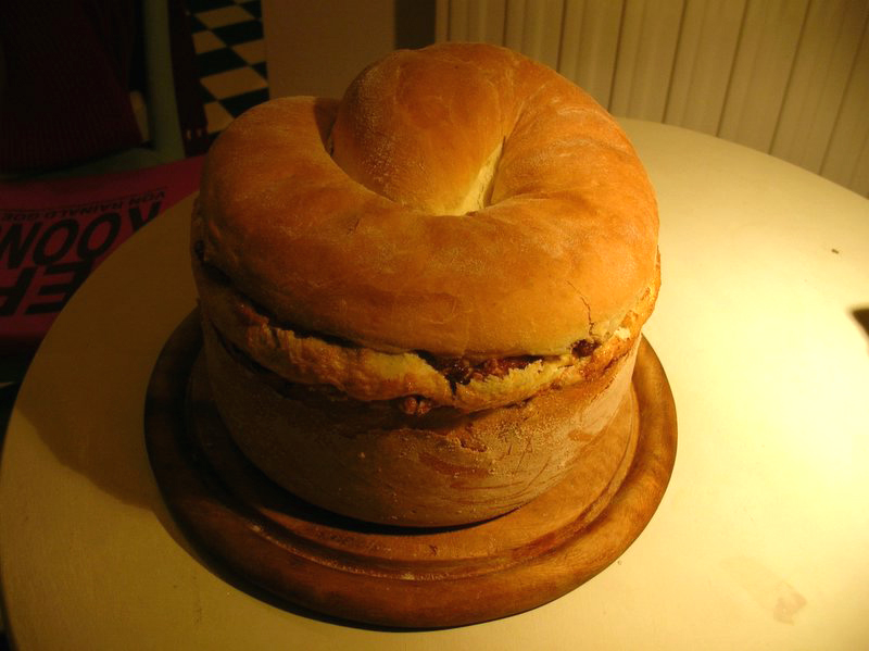 Depiction of a fresh Kärntner, or Carinthian, Reindling.